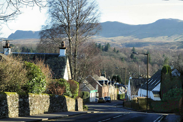 Killearn, Campsie Fells in the background